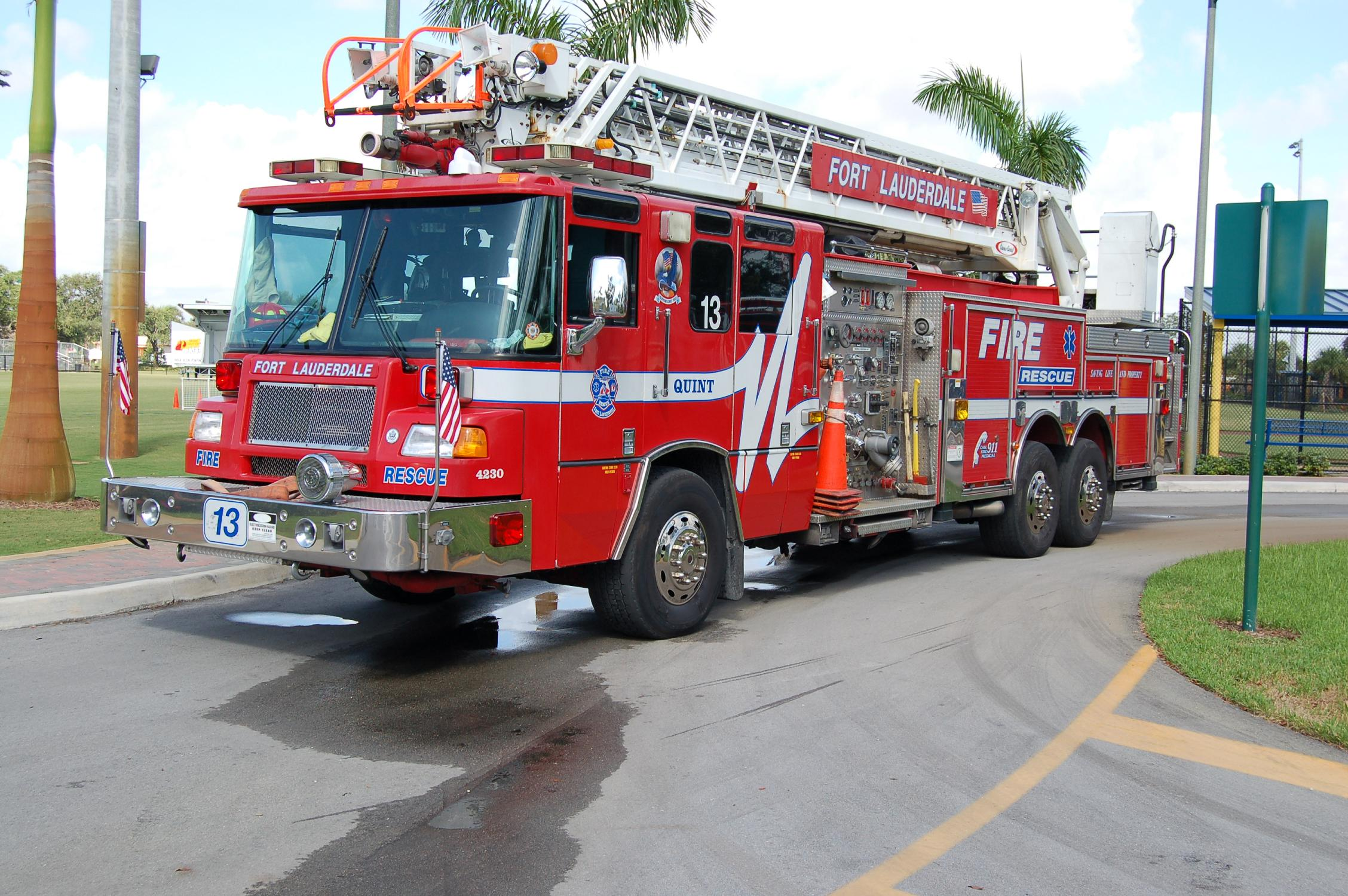 Fort Lauderdale Fire-Rescue Ladder 13, a 1998 Pierce Quantum 105' aerial ladder with 2000 gpm pump, 200 gallon water tank and 60 foam.